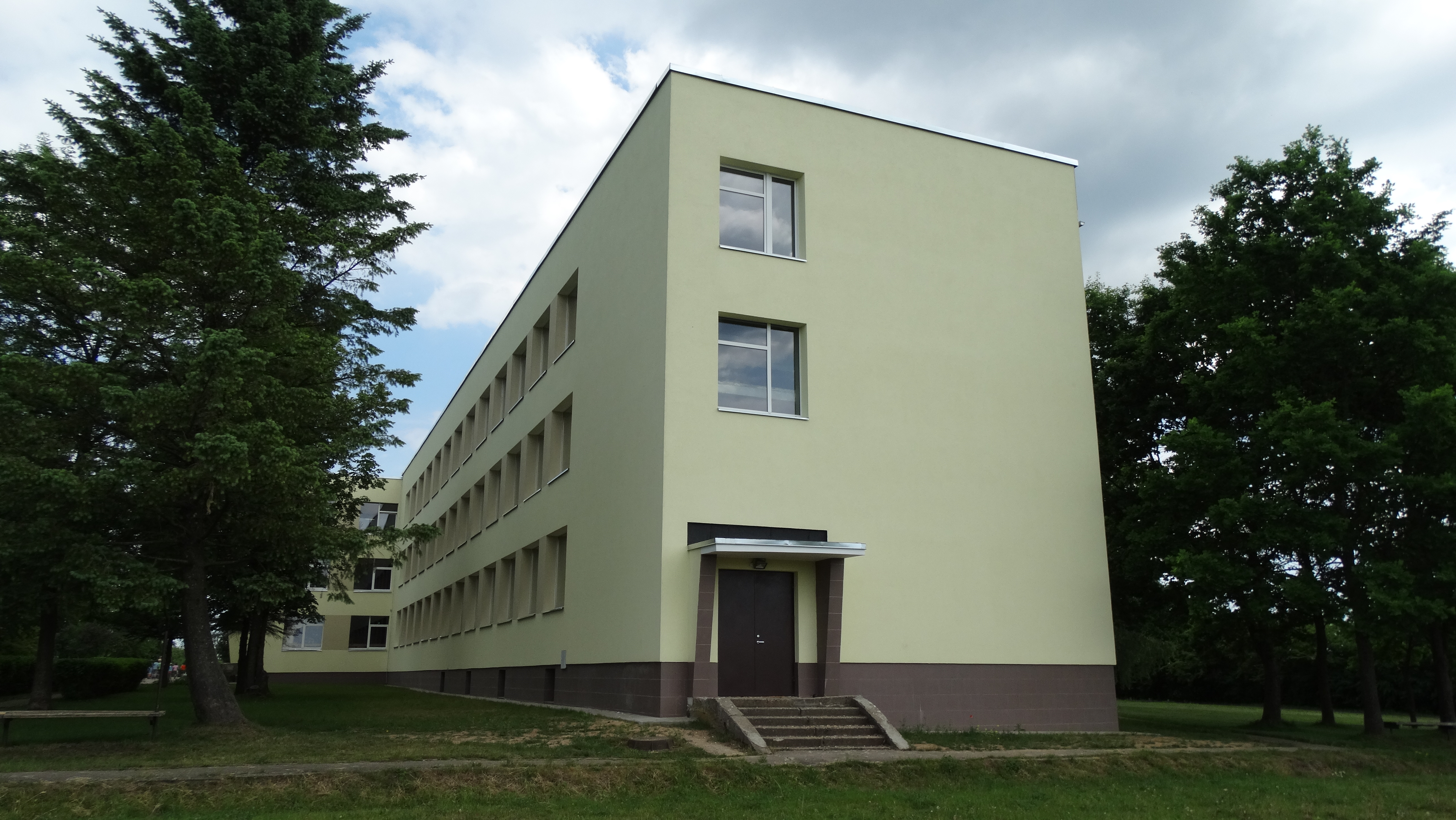 Rukainiai Gymnasium, Vilnius District, Lithuania